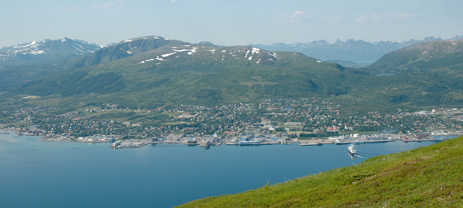 Sortland in july can be a very beautiful and inviting experience. Here is the town as viewed from the top of the mountain Strandheia - while the south bond coastal express is arriving.